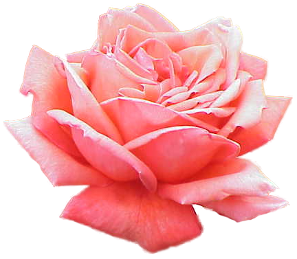 Species: Rosa sp. Family: Rosaceae Cultivar: Lucy Cramphorn, Kriloff 1960 Image No. 173